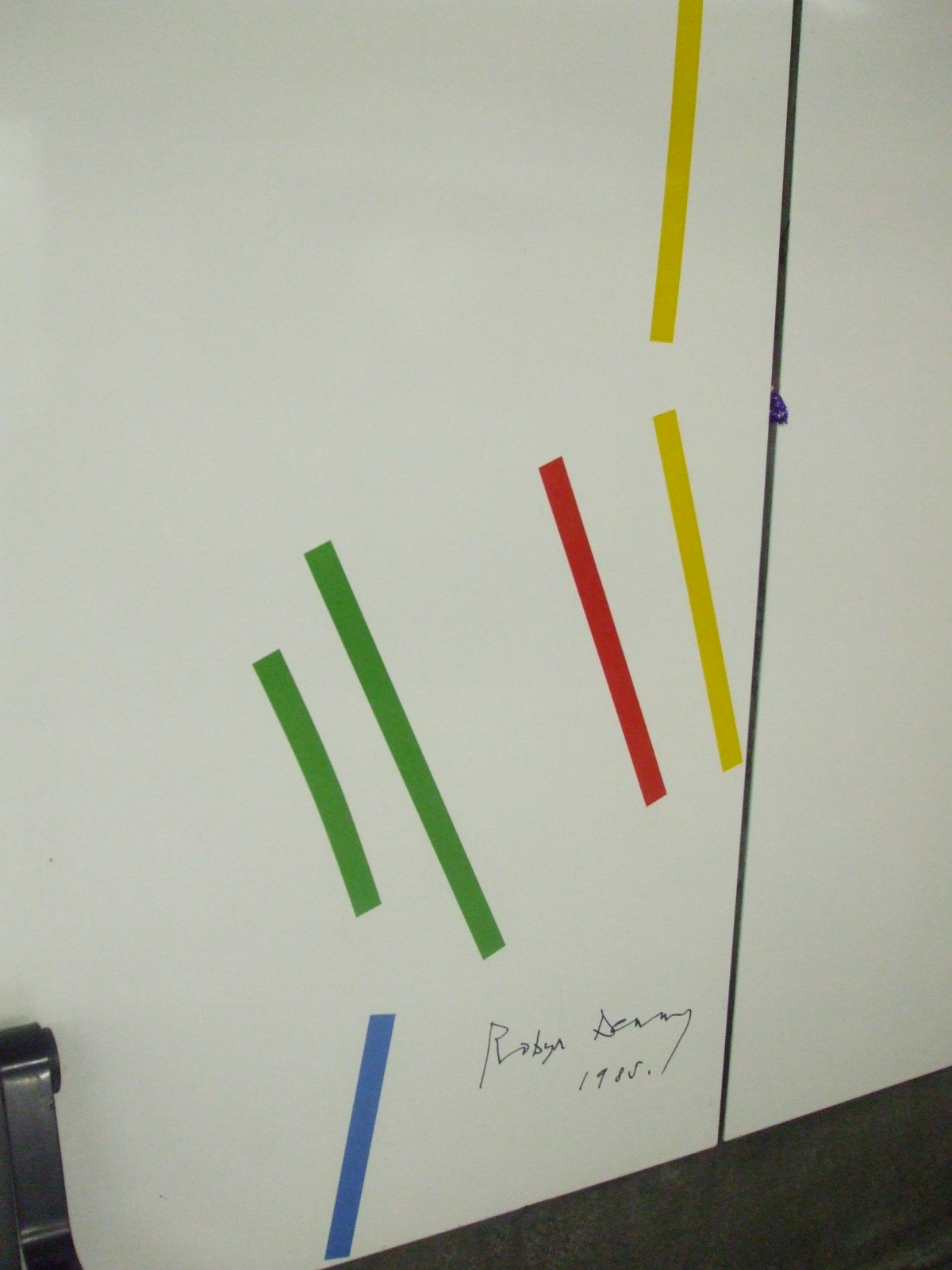 Embankment tube station District and Circle line platform motif by Robyn Denny